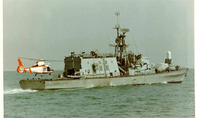 Helicopter Capable Sa'ar 4.5 missile boat